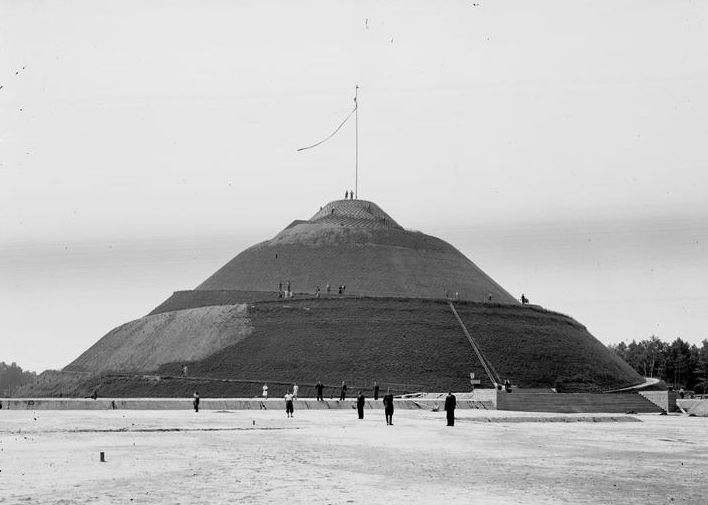 Piłsudski's Mound, Kraków.